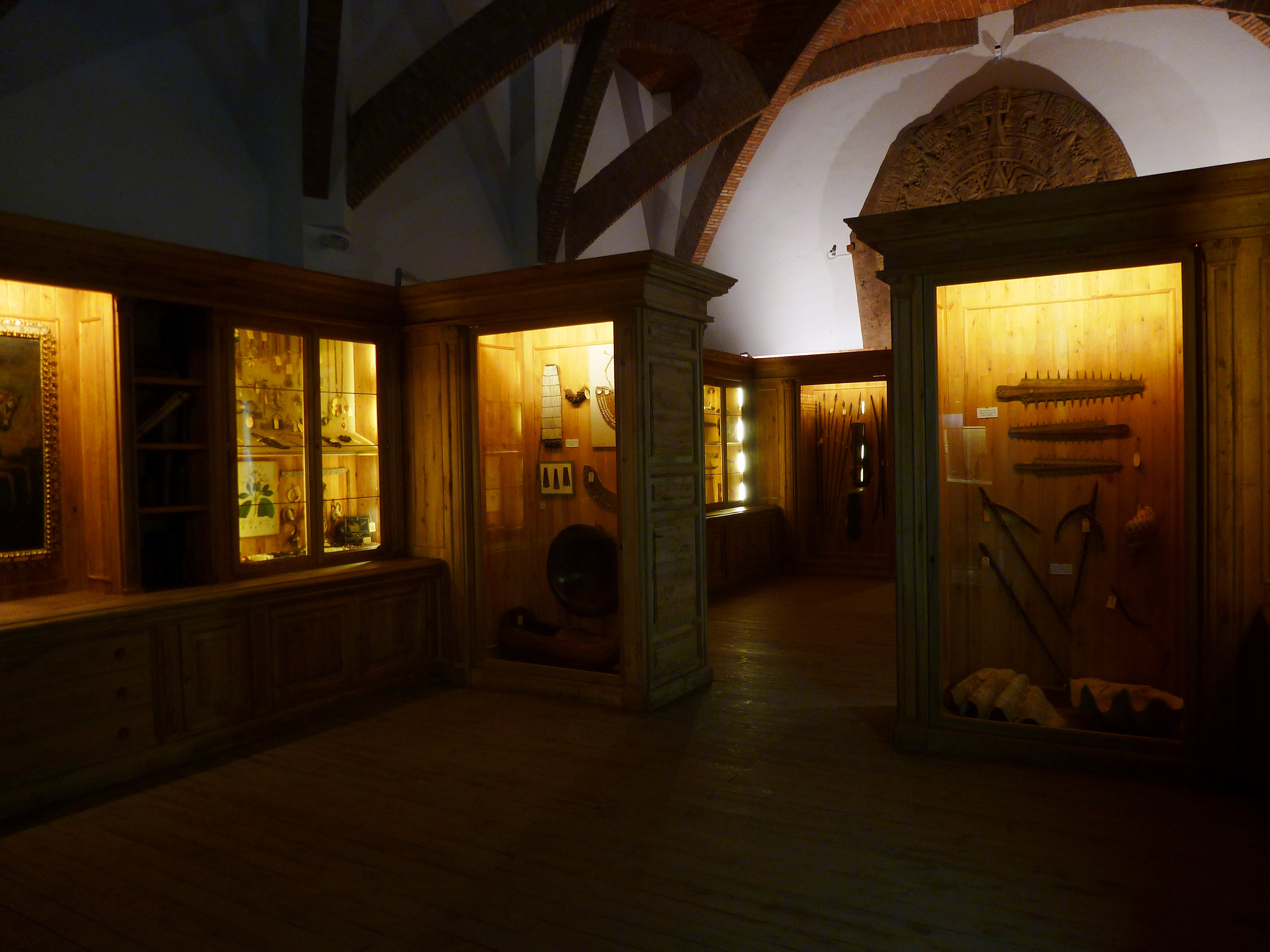 Rooms of the Museum of the Americas (Madrid, Spain) recreating the look of the Royal Cabinet of Natural History.